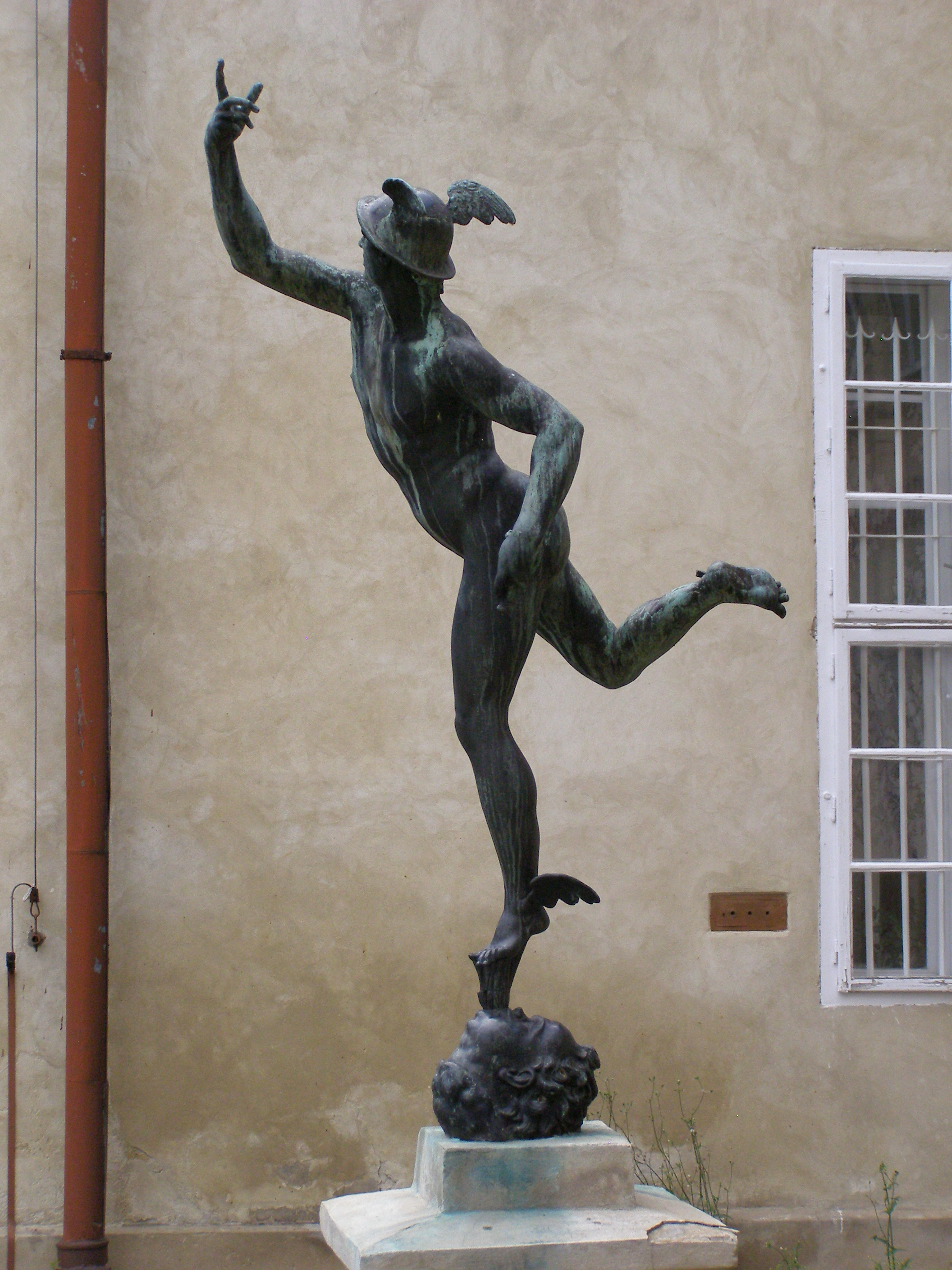 Tarnów-Gumniska - princes Sanguszko palace, currently School of Economics and Gardening